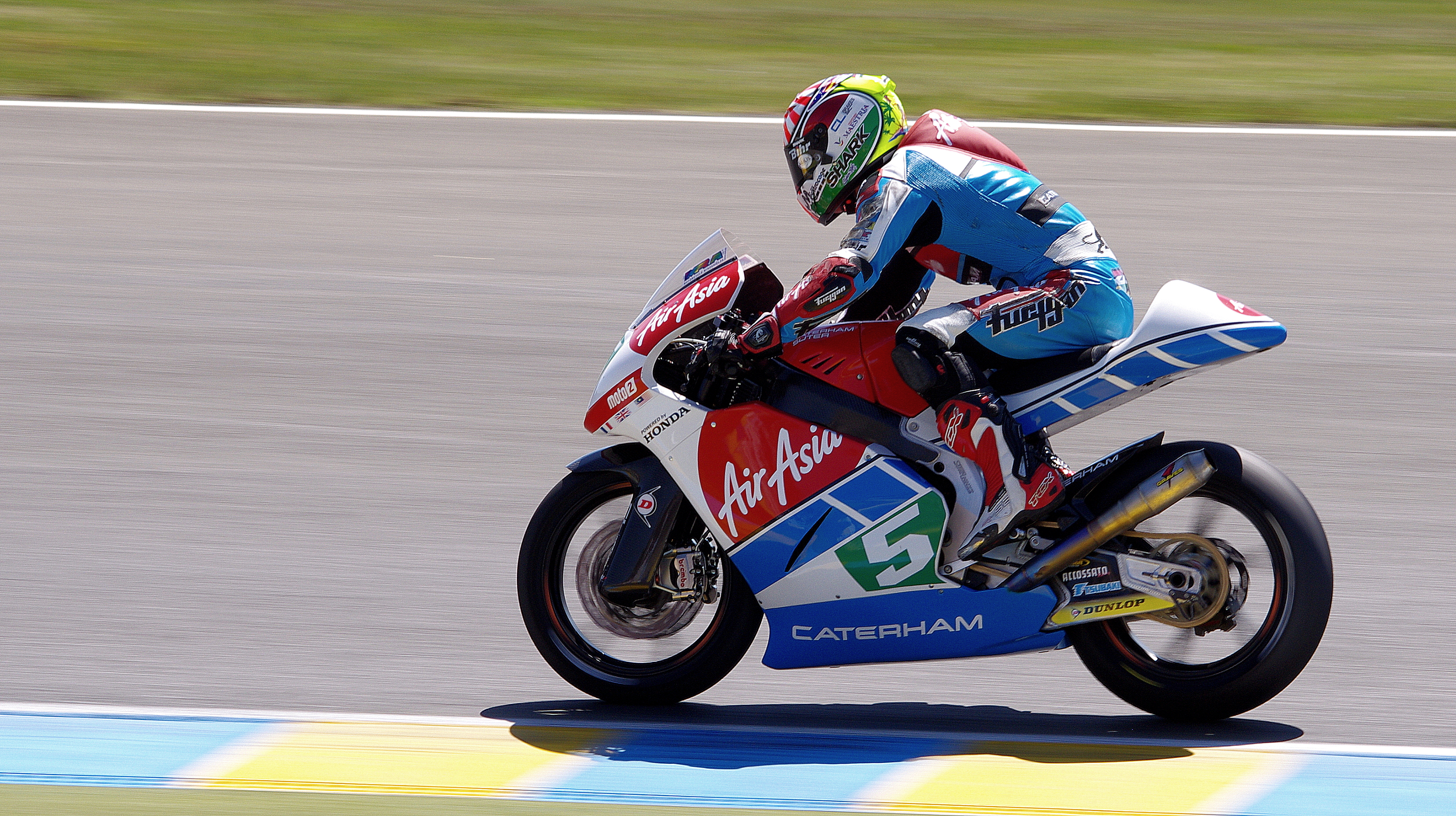 Johann ZARCO - AirAsia Caterham - Moto2 2014 - Le Mans 2014 french motorcycle Grand Prix at Le Mans Bugatti Circuit